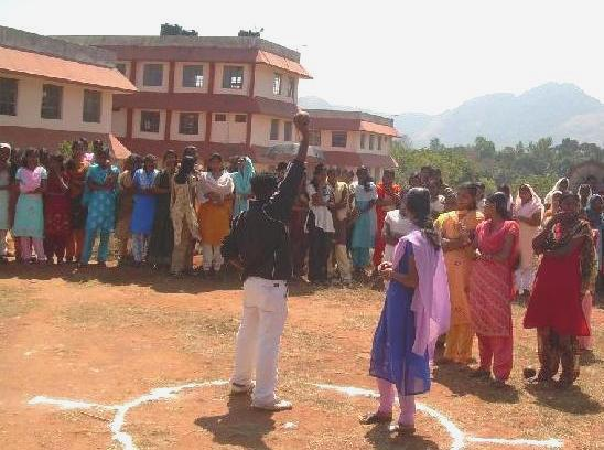 Annual sports meet at Government College, Kattappana